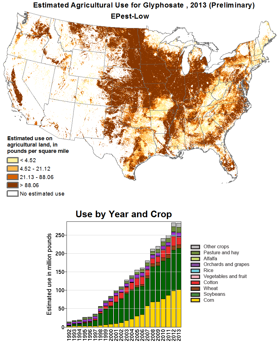 Glyphosate map of use, USA, 2013 (estimated)